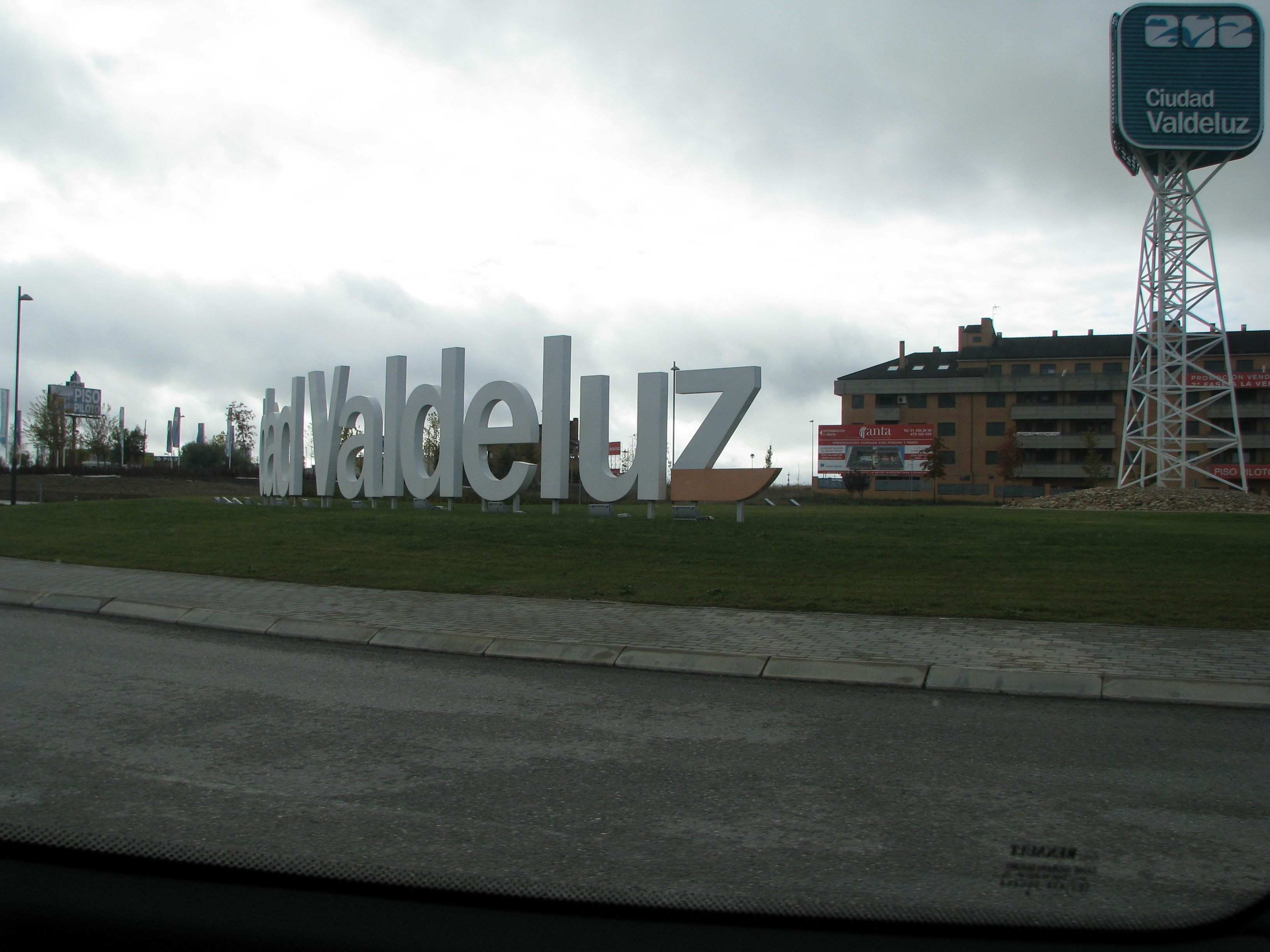 Valdeluz City (Yebes, Guadalajara, Spain).